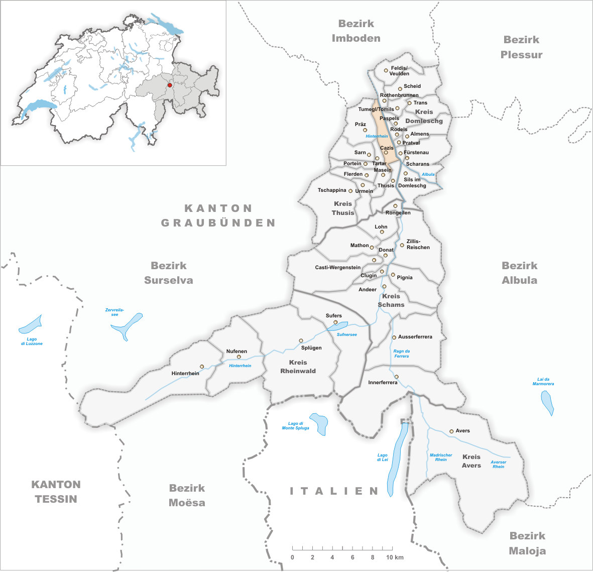 Municipality Cazis